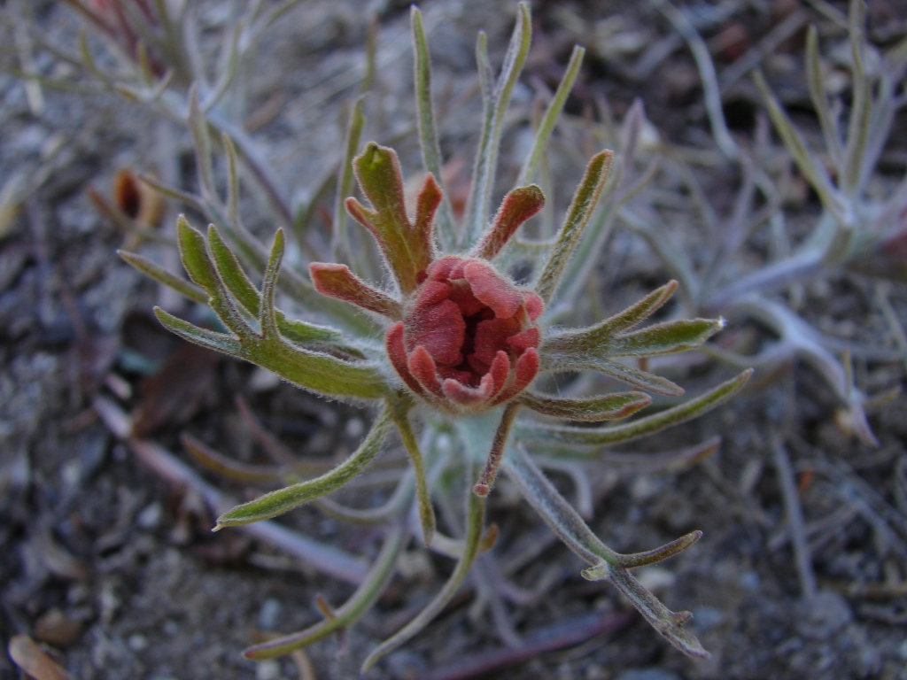 cobwebby indian paintbrush, Lassen Volcanic National Park